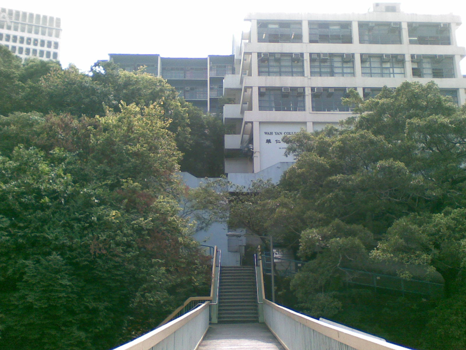 Mount Parish taken from footbridge over Queen's Road East